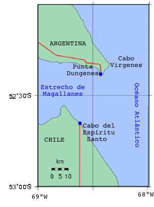 Strait of Magellan, east estuary mouth